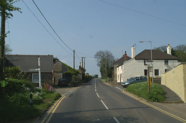 The crossroads on the A30 at Drift.